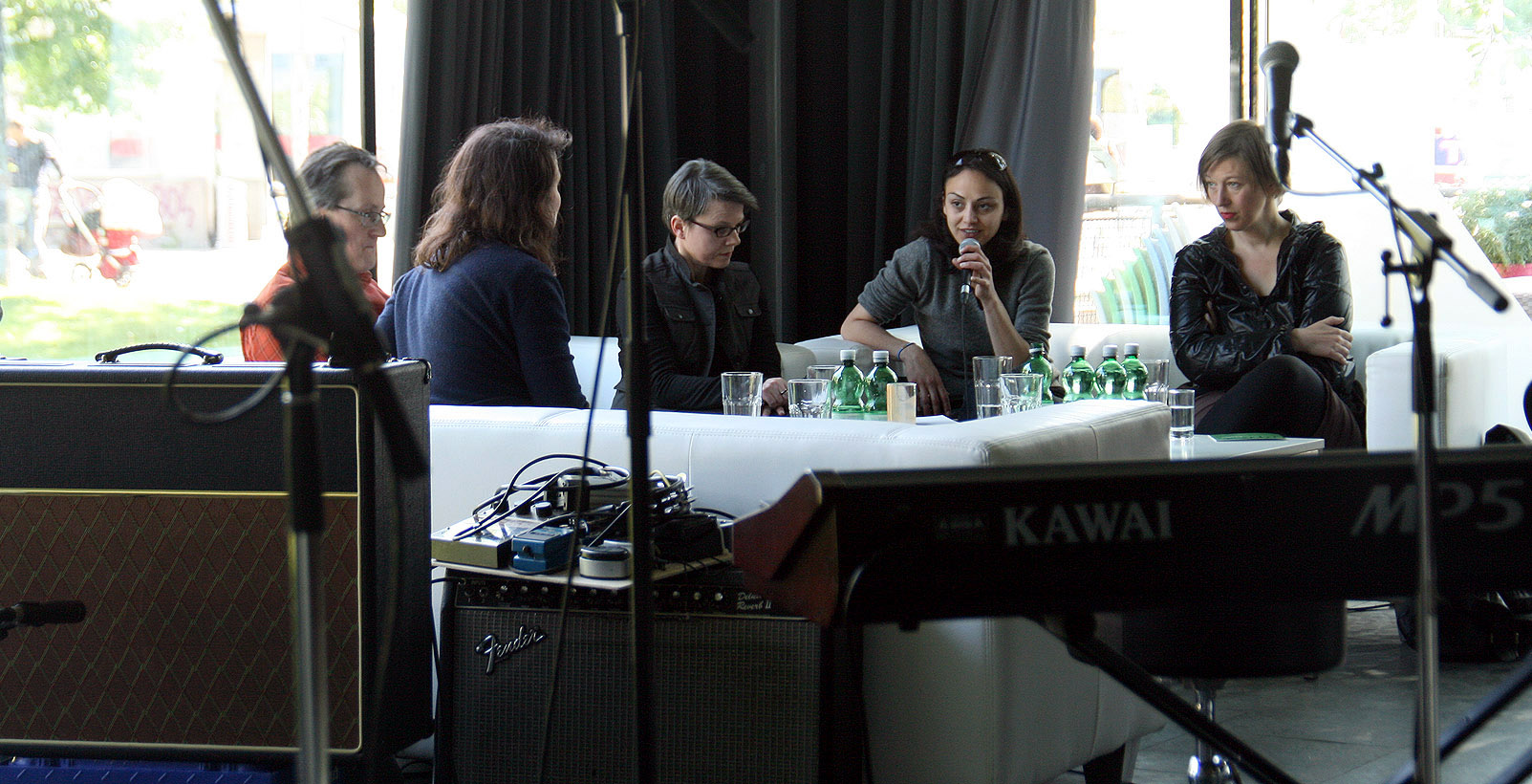 Ursula Maria Probst, Martin Blumenau, Rosa Reitsamer, Tania Saedi and Susanne Rogenhofer, Popfest 2011 in Vienna.